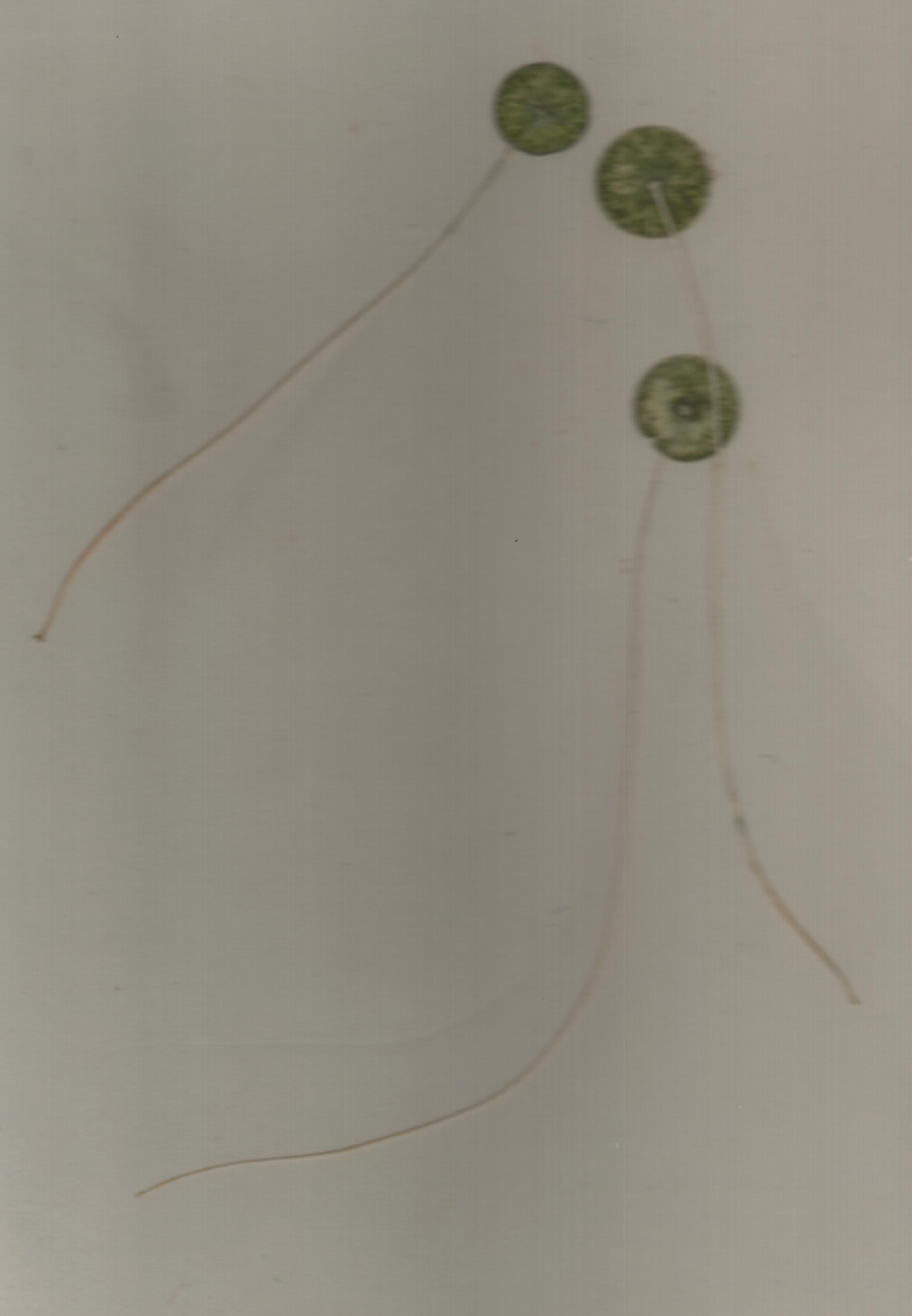 Acetabularia sp. Scan of herbarium : B.navez - JUL 1982 - Villefranche-sur-mer (France)